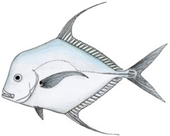 A hand sketched and coloured diagram of the African threadfish, Alectis alexandrinus based on line diagram by Bellemans et al 1988. Colour based on photographs at Fishbase